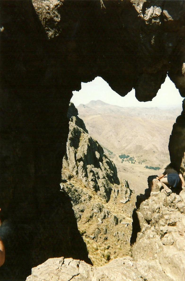 A panoramic view at Sierra de la Ventana